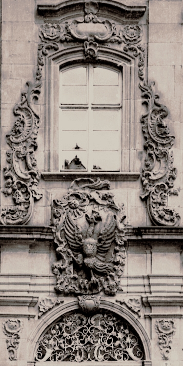 Door of the archive building in Heilbronn, ca. 1900